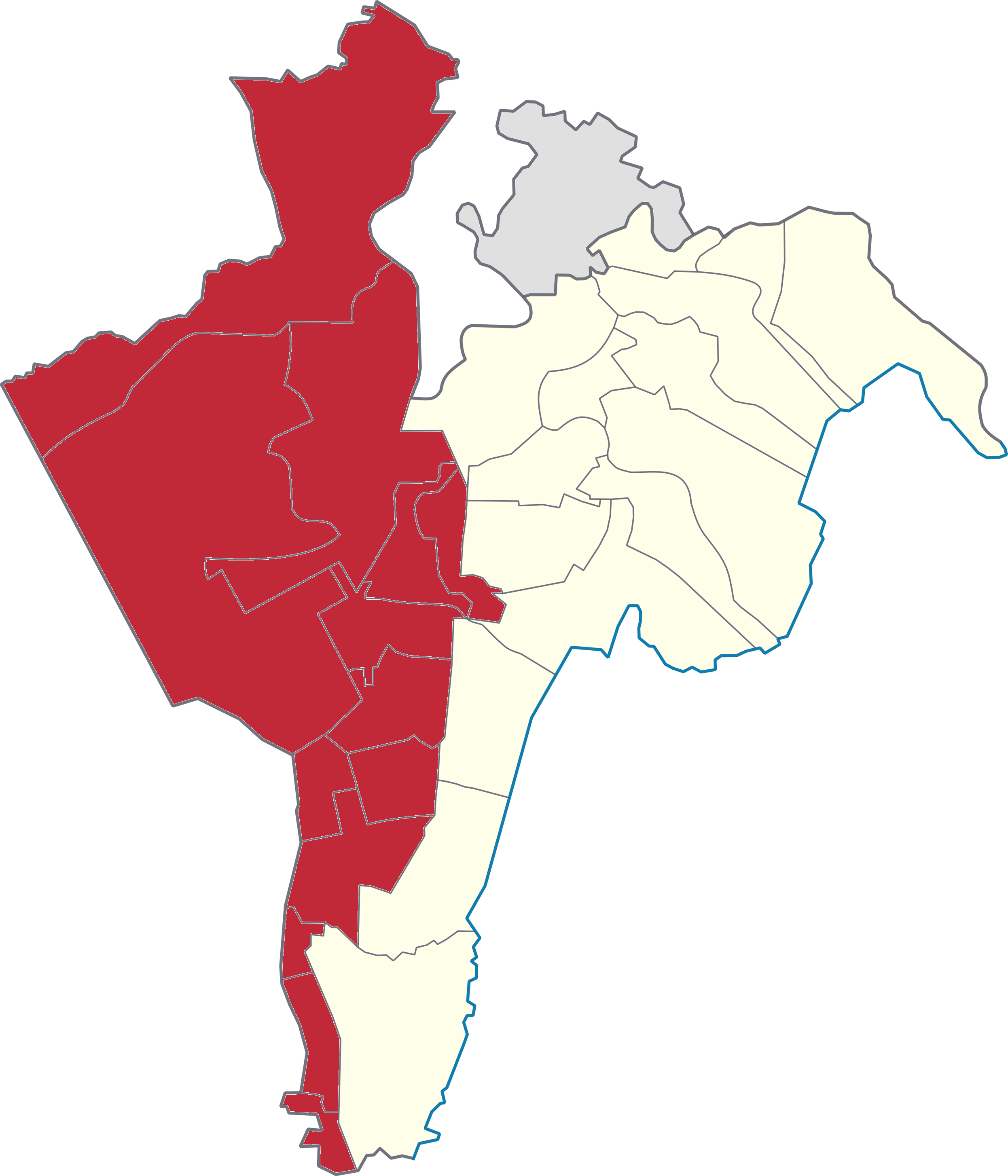 Location of the Lone legislative district of Taguig, Philippines